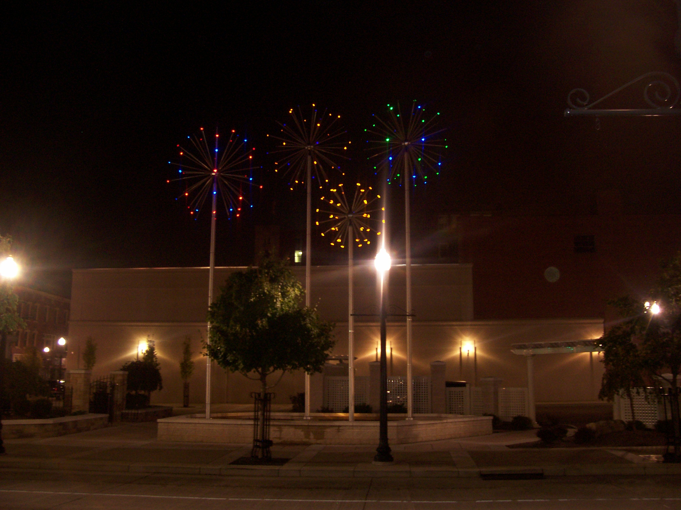 Zambelli Plaza at night with the fireworks lit up.